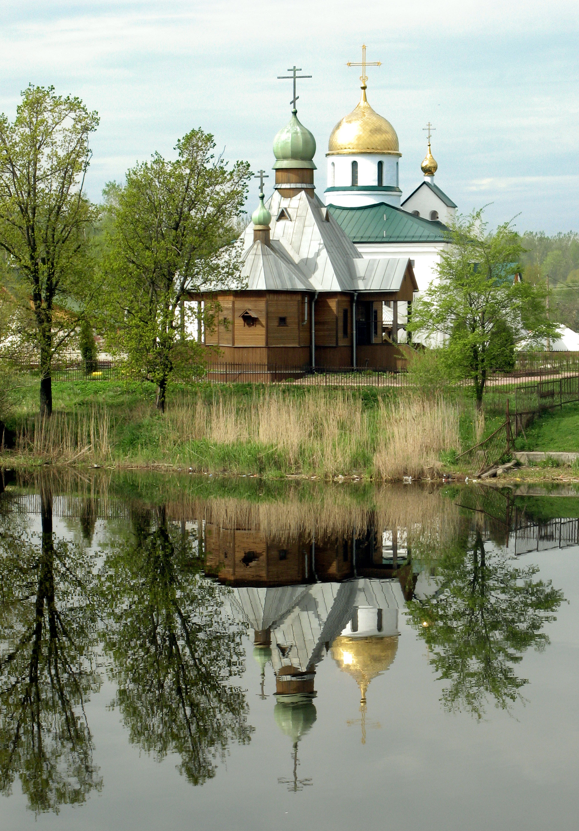 Troitsky-sobor and its reflection in Izhora river, Kolpino.